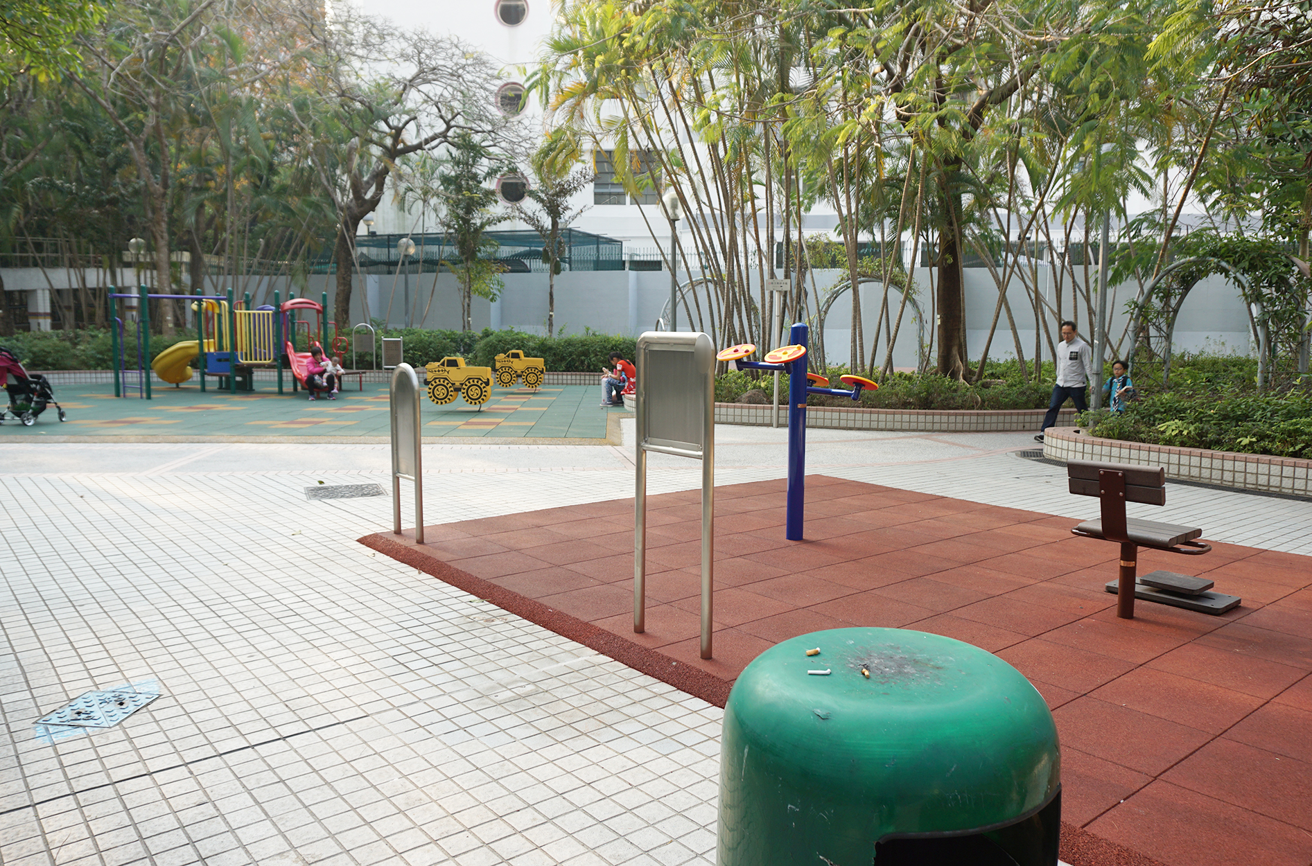 Lung Hang Estate in Tai Wai, Hong Kong.